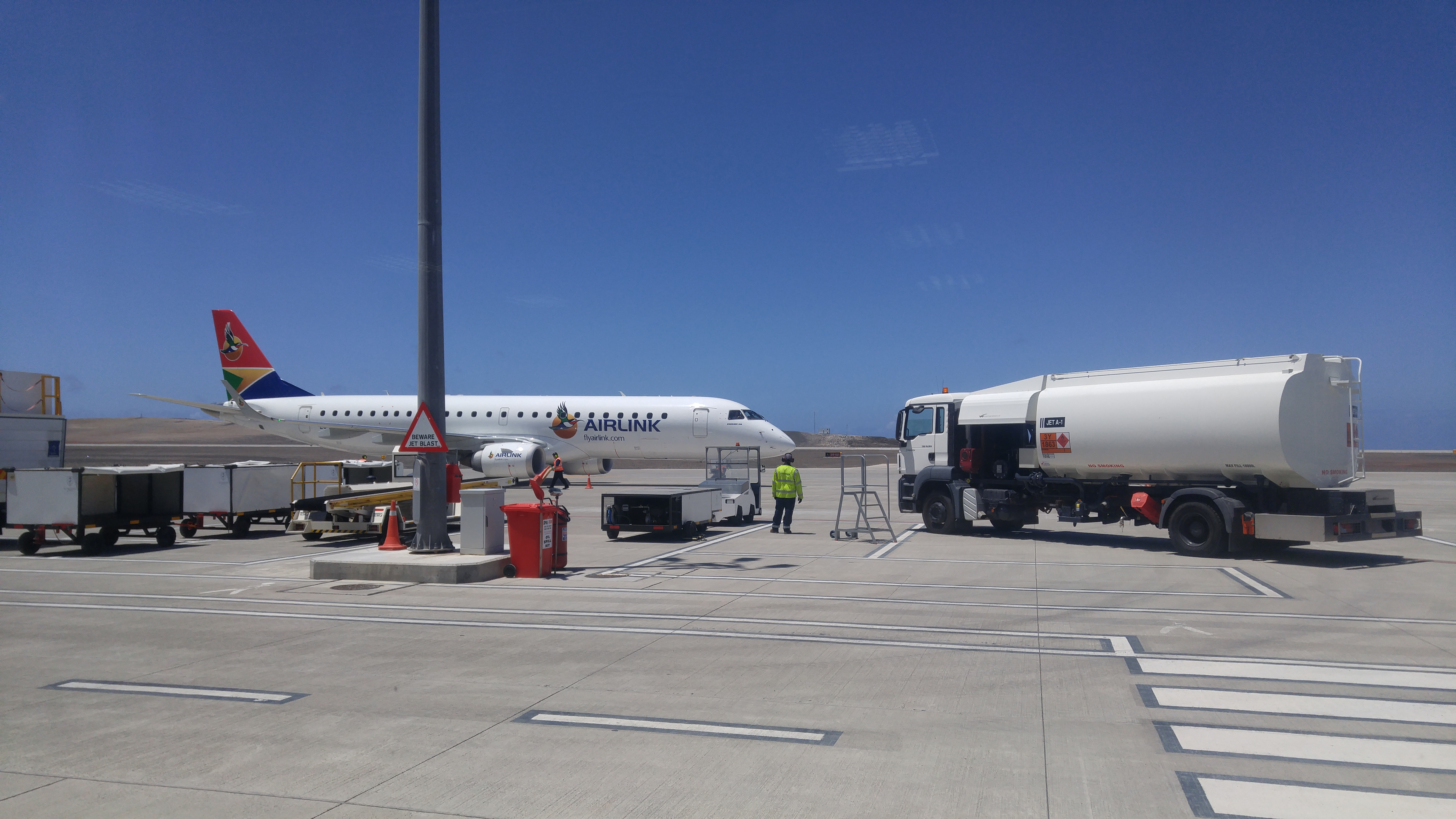 Airlink Embraer E 190 refueling at Saint Helena Airport, March 2020, soon to depart to Johannesburg